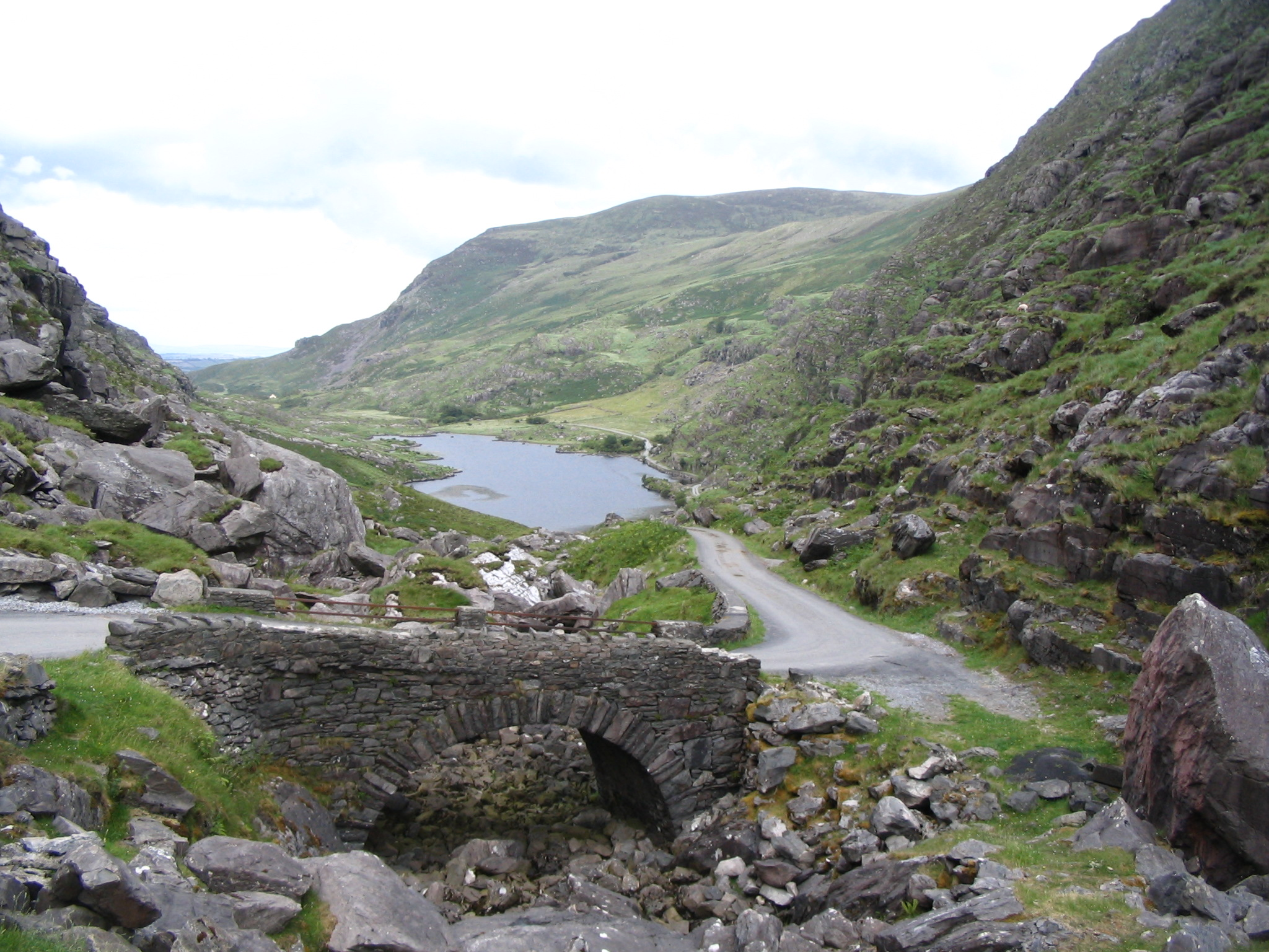 Looking northwards into Auger Lake, Gap of Dunloe